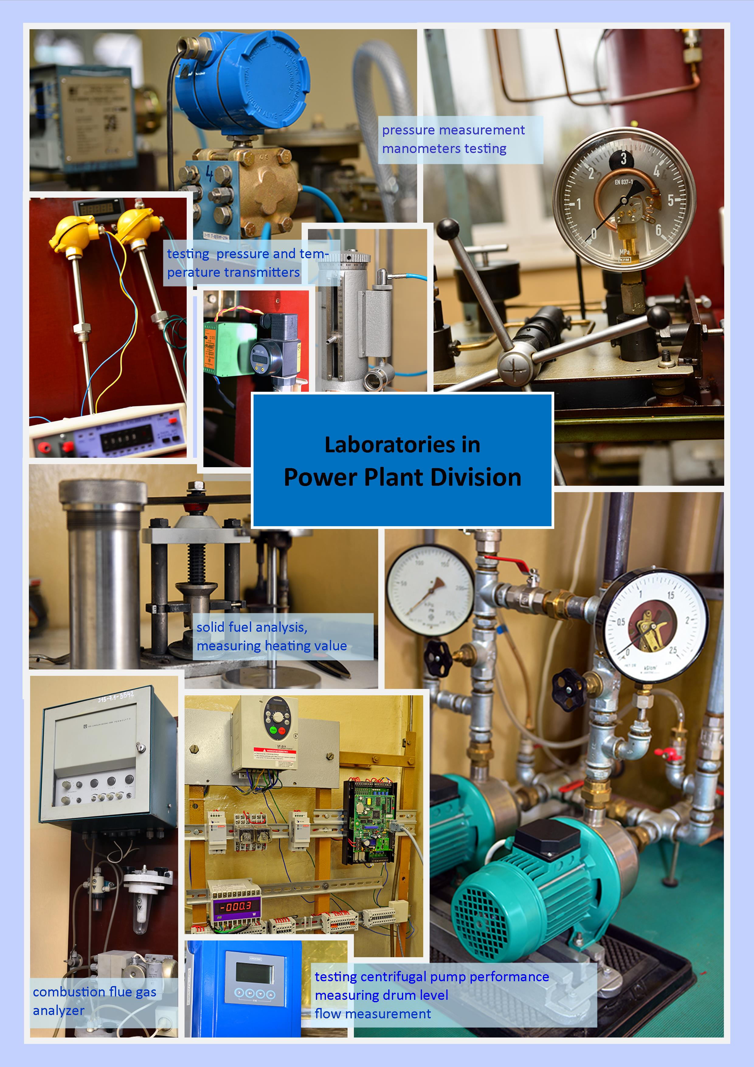 Laboratories in Power Plant Division